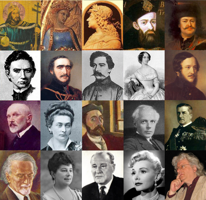 famous Hungarians: Stephen I of Hungary, St. Elizabeth of Hungary, Matthias Corvinus, Gábor Bethlen, Ferenc Rákóczi, János Bolyai, István Széchenyi, János Arany, Róza Laborfalvi, József Eötvös, Loránd Eötvös, Vilma Hugonnai, Tivadar Kosztka, Béla Bartók, Miklós Horthy, Zoltán Kodály, Emma Orczy, János Kádár, Zsa Zsa Gabor, Péter Esterházy Péter Esterházy (b. 1950), Hungarian writer